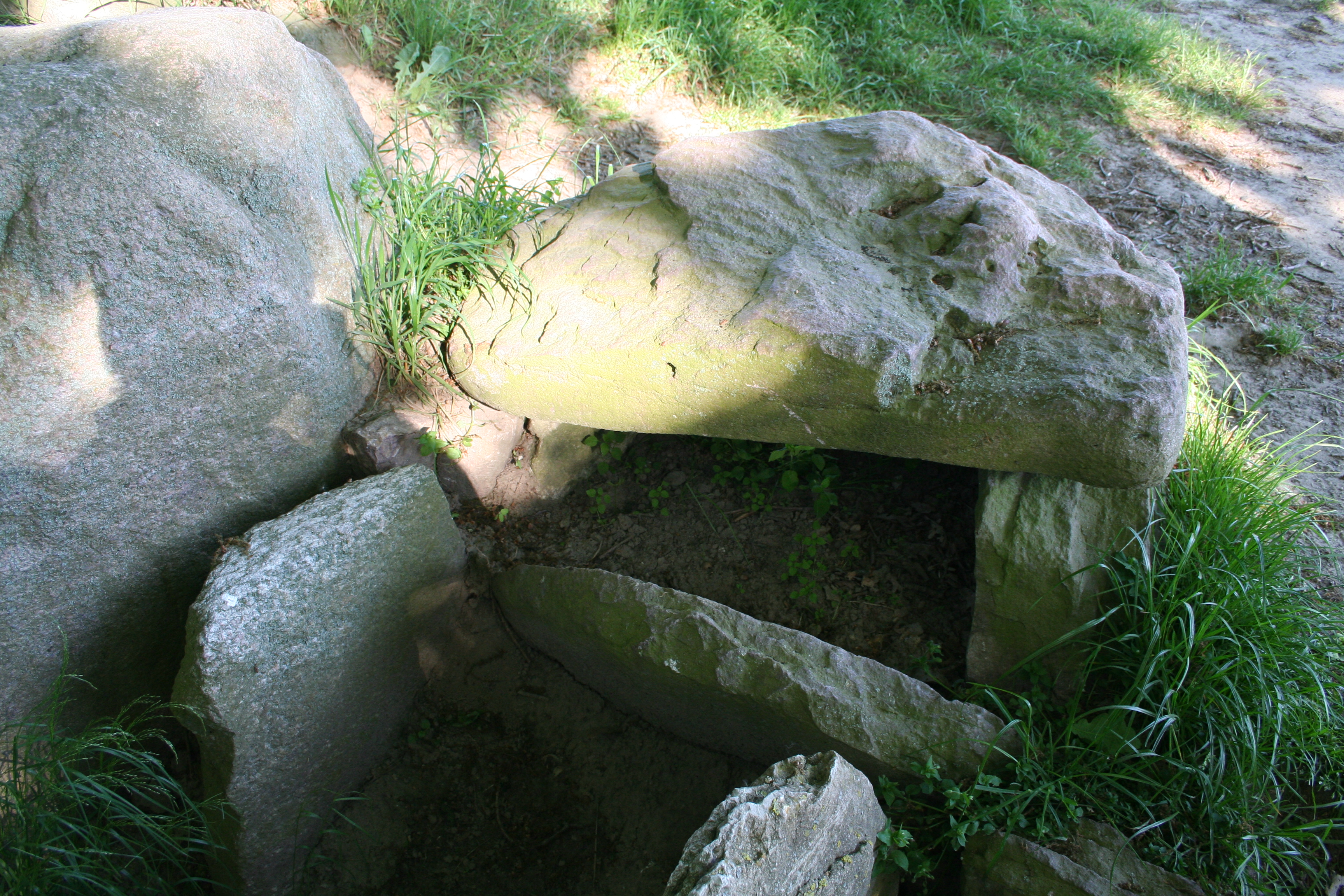 Megalithic tomb Lancken-Granitz 2